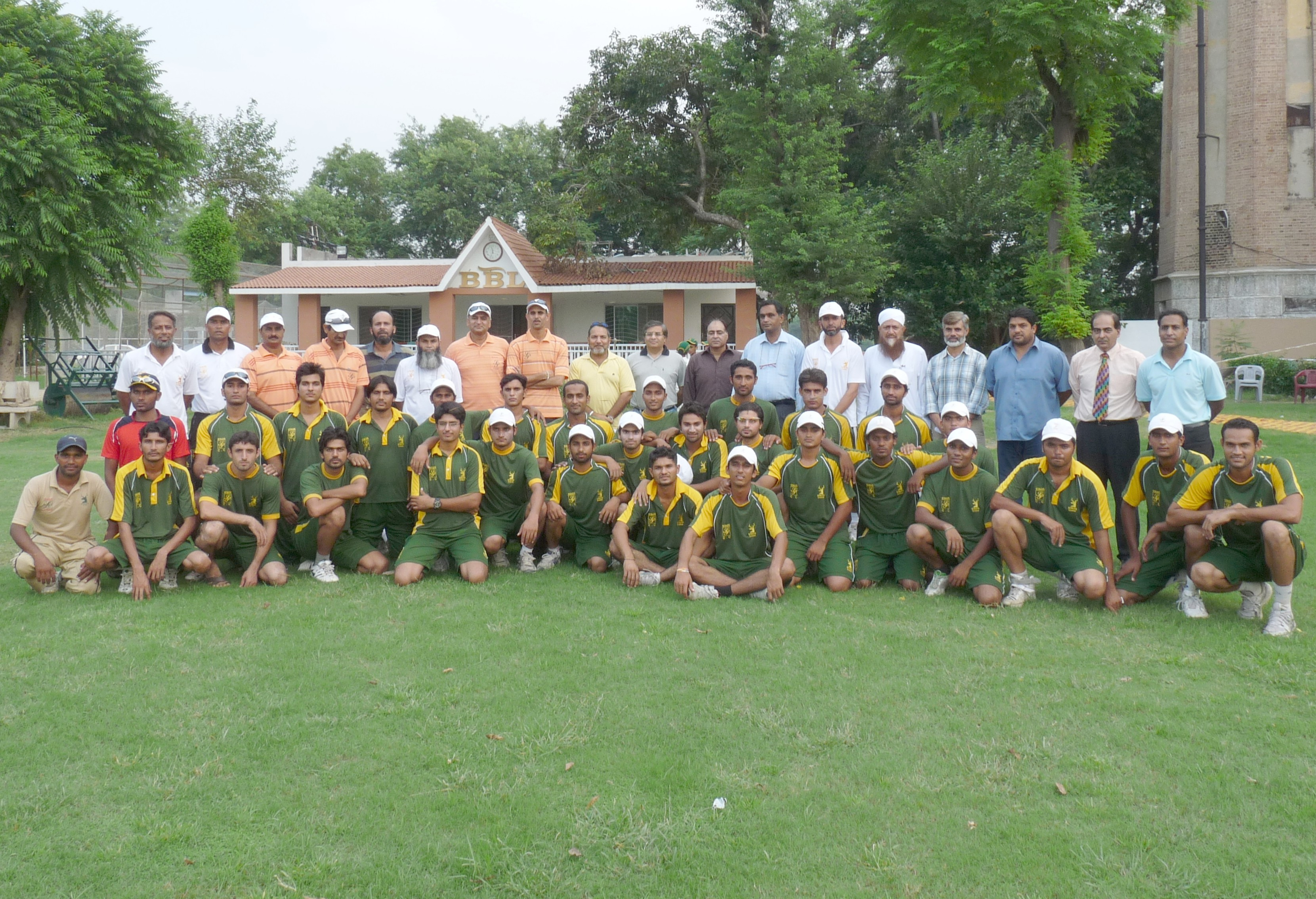 The Stags Cricket Academy students along with Shahid Anwar, Aizad Sayid, Hafiz Sajjad Akbar, Javed Hayat, Kamran Khan, Bilal Ahmed, Imtiaz Ahmed and others.